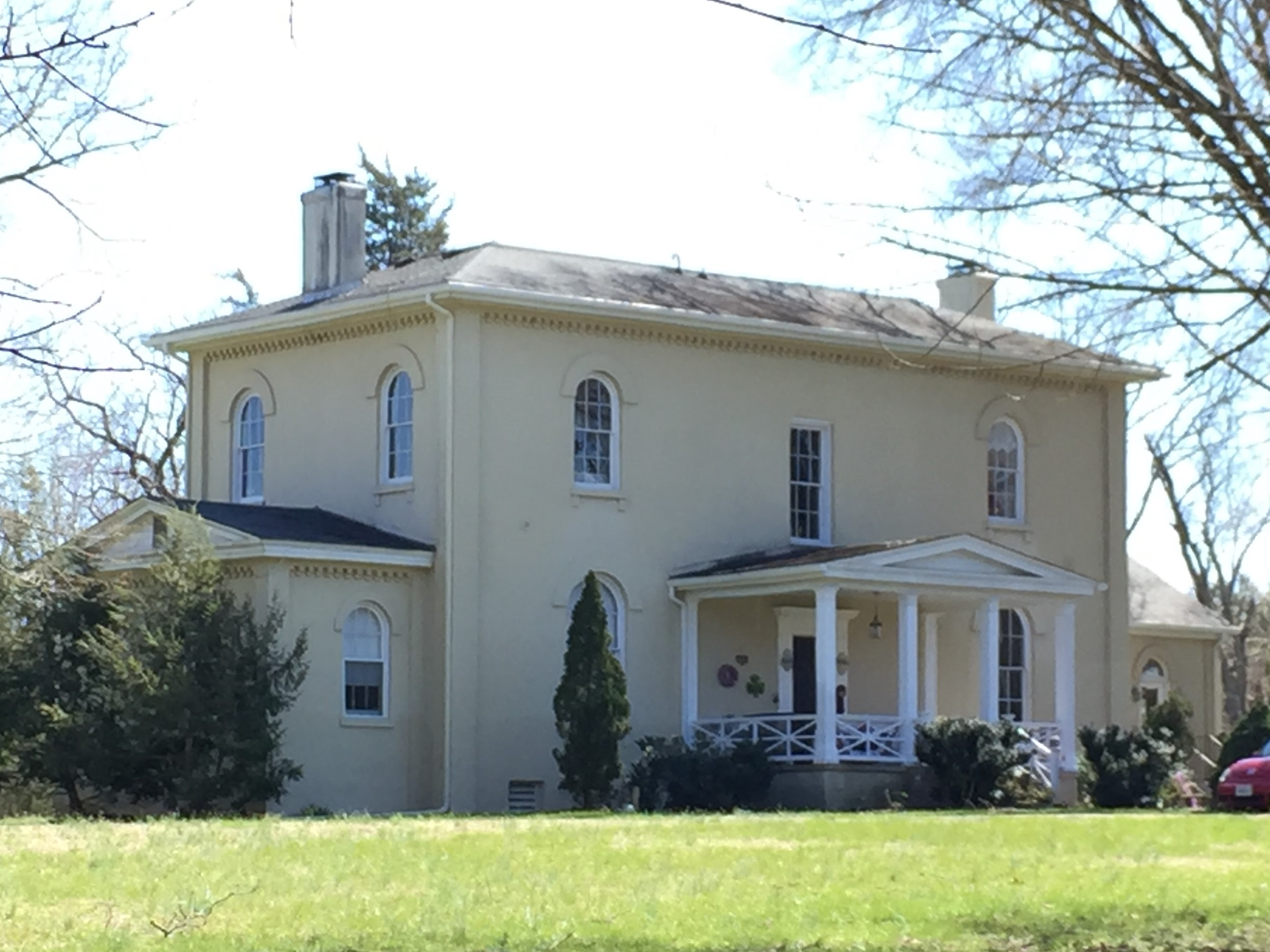 Fighting Creek Plantation house, entrance from the street